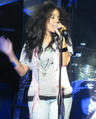 Lizette Santana on stage lizé lize